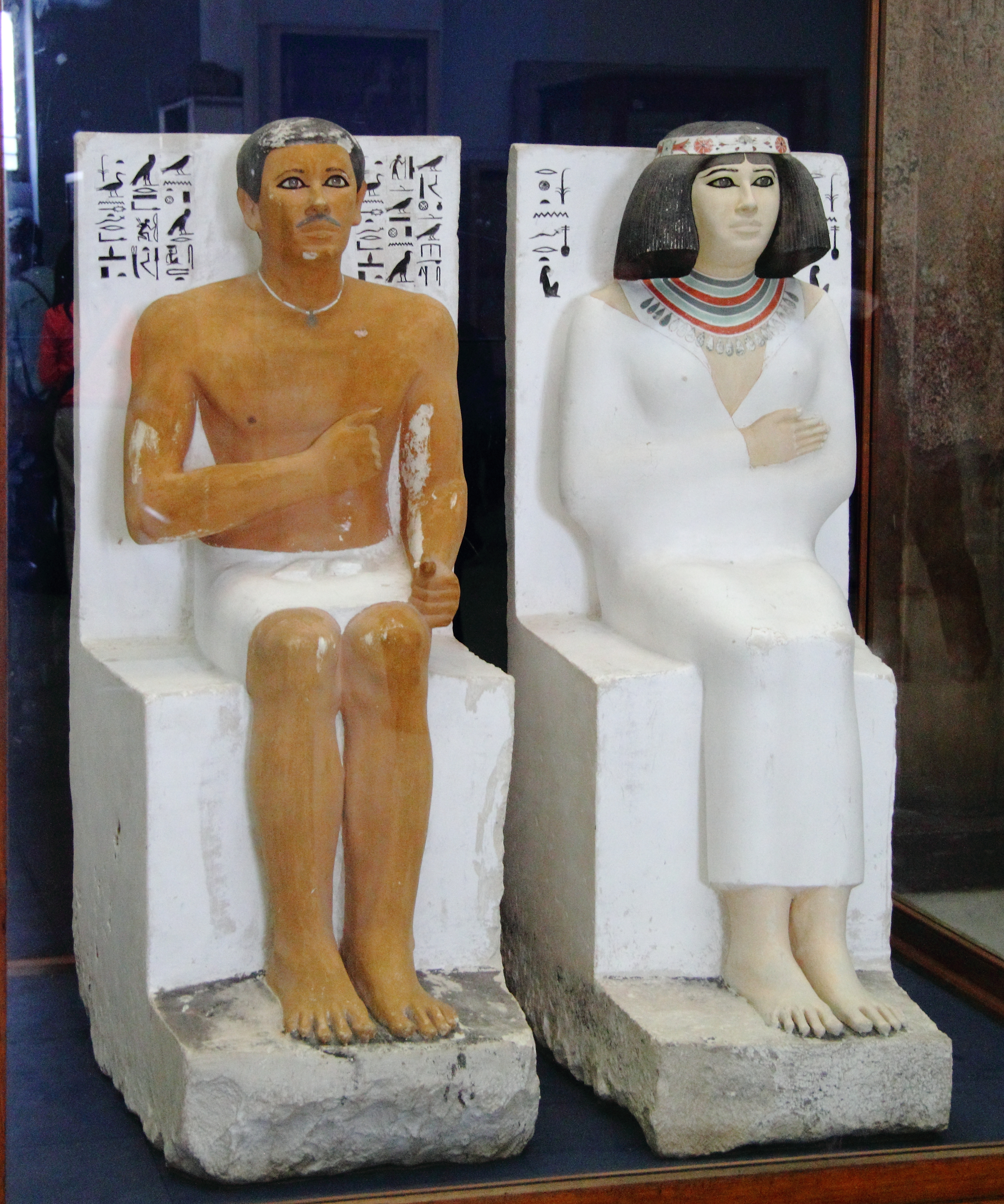 Egyptian Museum Cairo: Prince Rahotep and his wife Nofret, tomb statues from Meidum